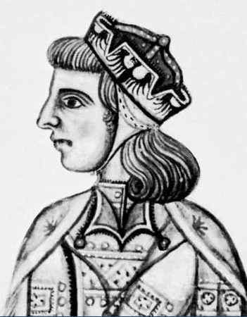 Manfred of Sicily